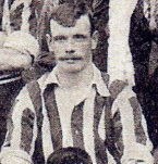 Ted McDonald